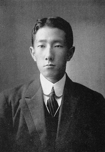 Masakoto Abe